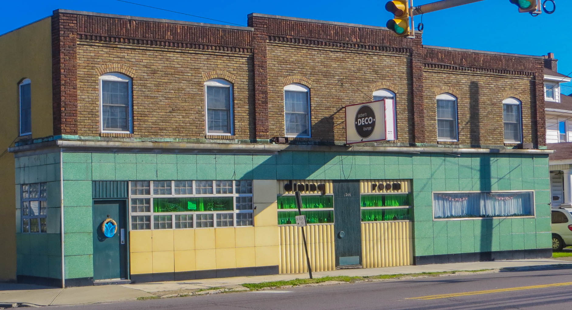 Gober's Deco Lounge, Exeter, Pennsylvania